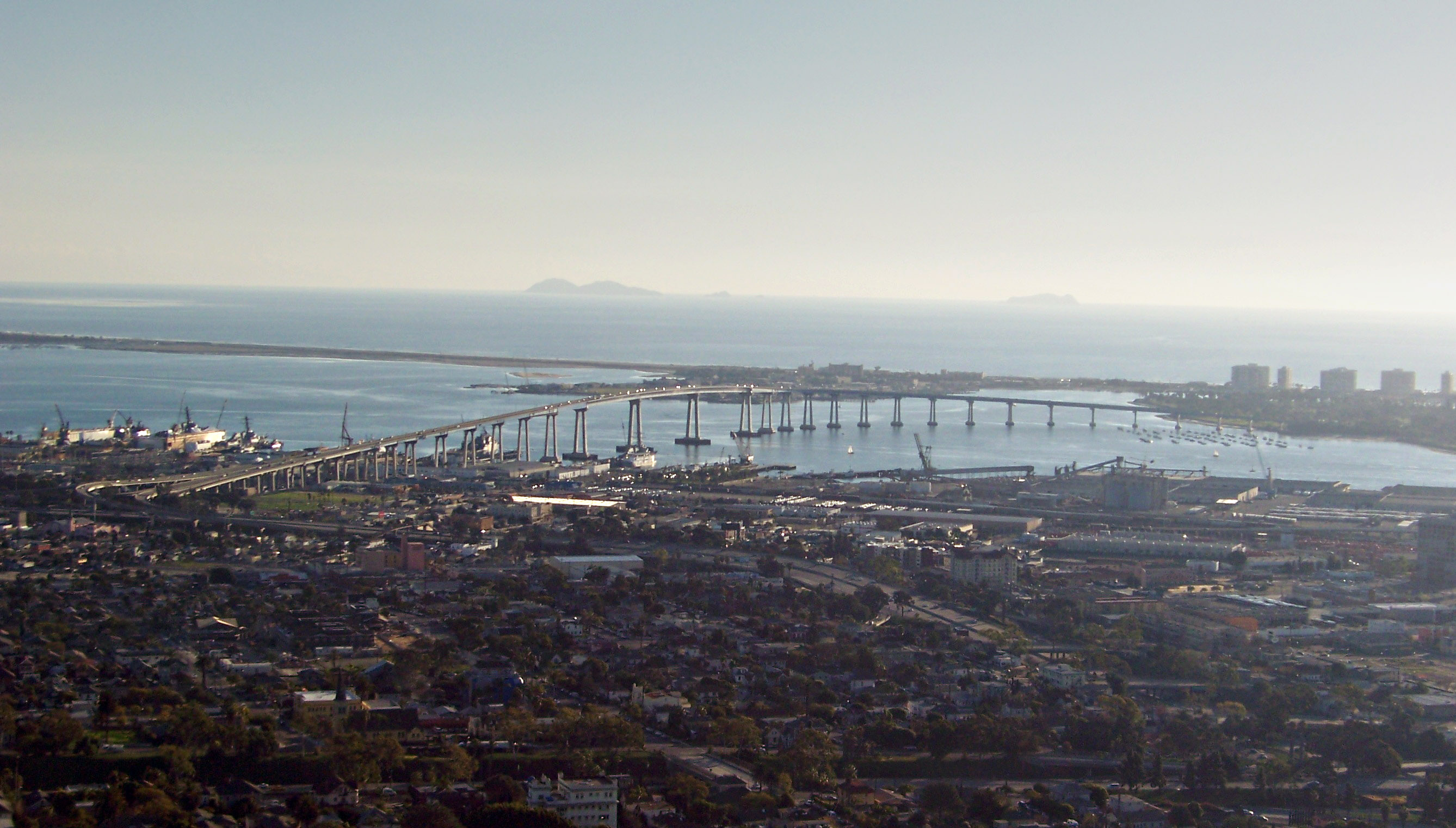 A view of the San Diego-Coronado Bridge from above in a commercial jet.